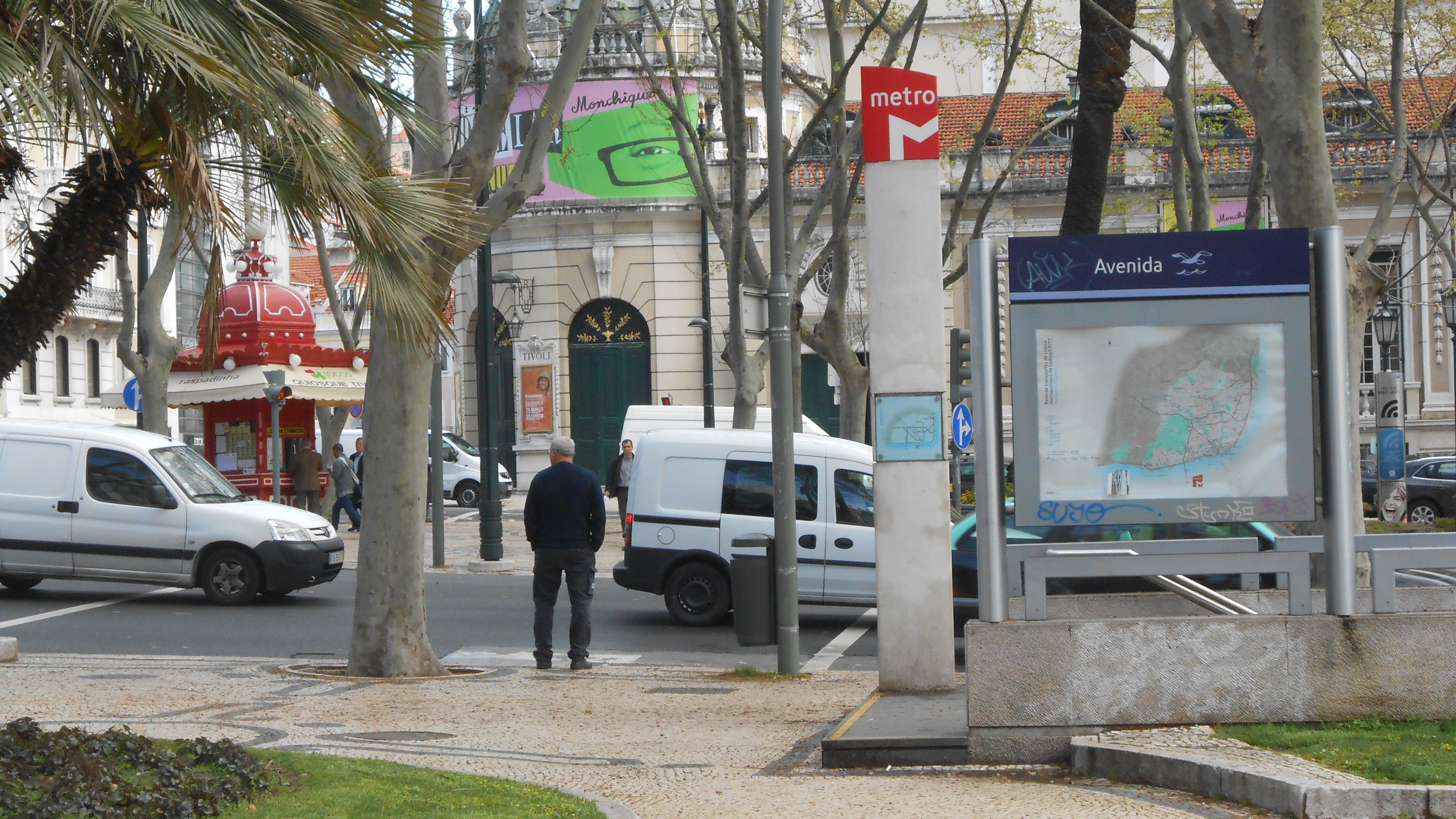 Entrance to the Avenida station of the Metro Lisboa, at the Avenida da Liberdade in Lisbon, in the back the Teatro Tivoli.